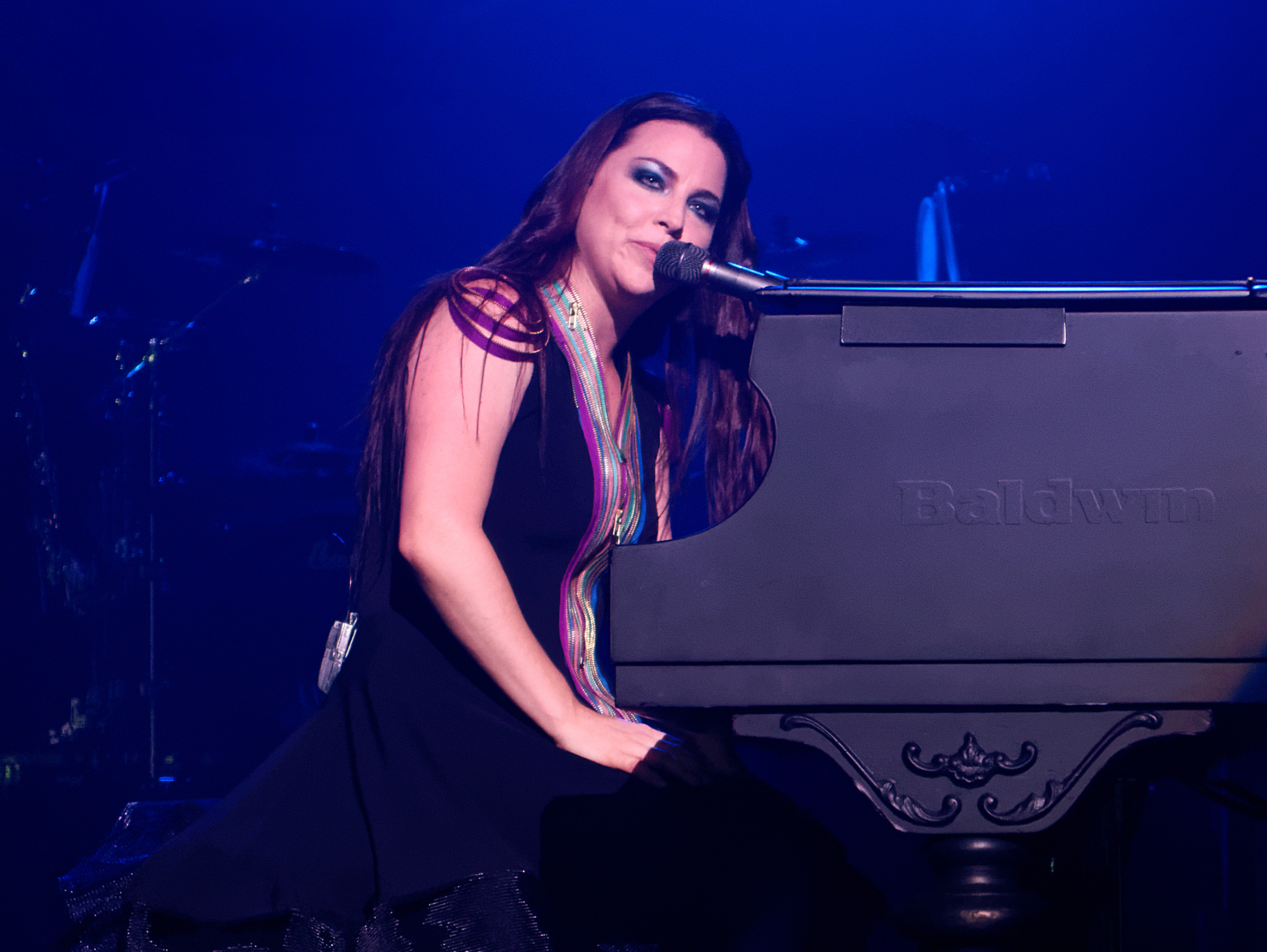 Evanescence performing live at The Wiltern theatre in Los Angeles, California on Tuesday November 17th, 2015.